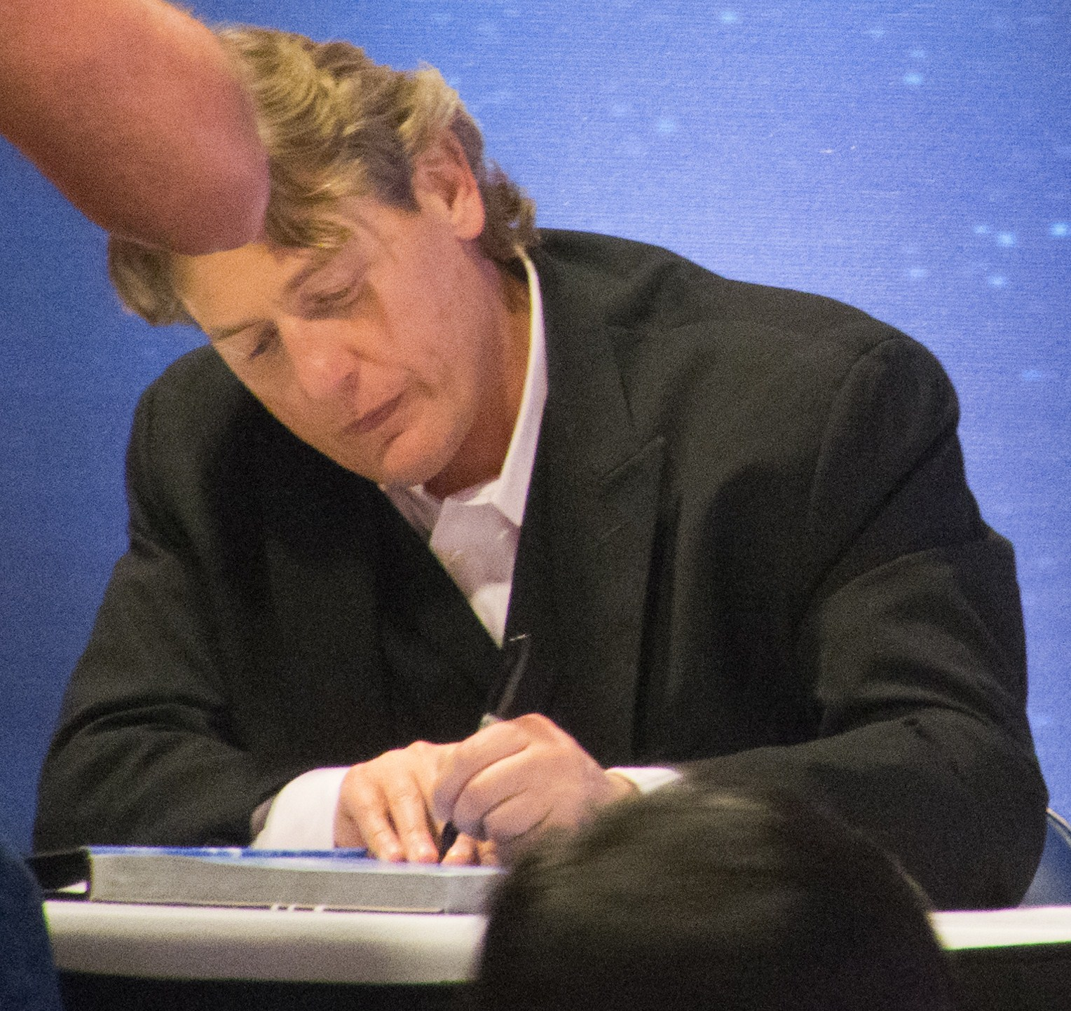 William Regal signing an autograph for fans at WrestleMania 28.